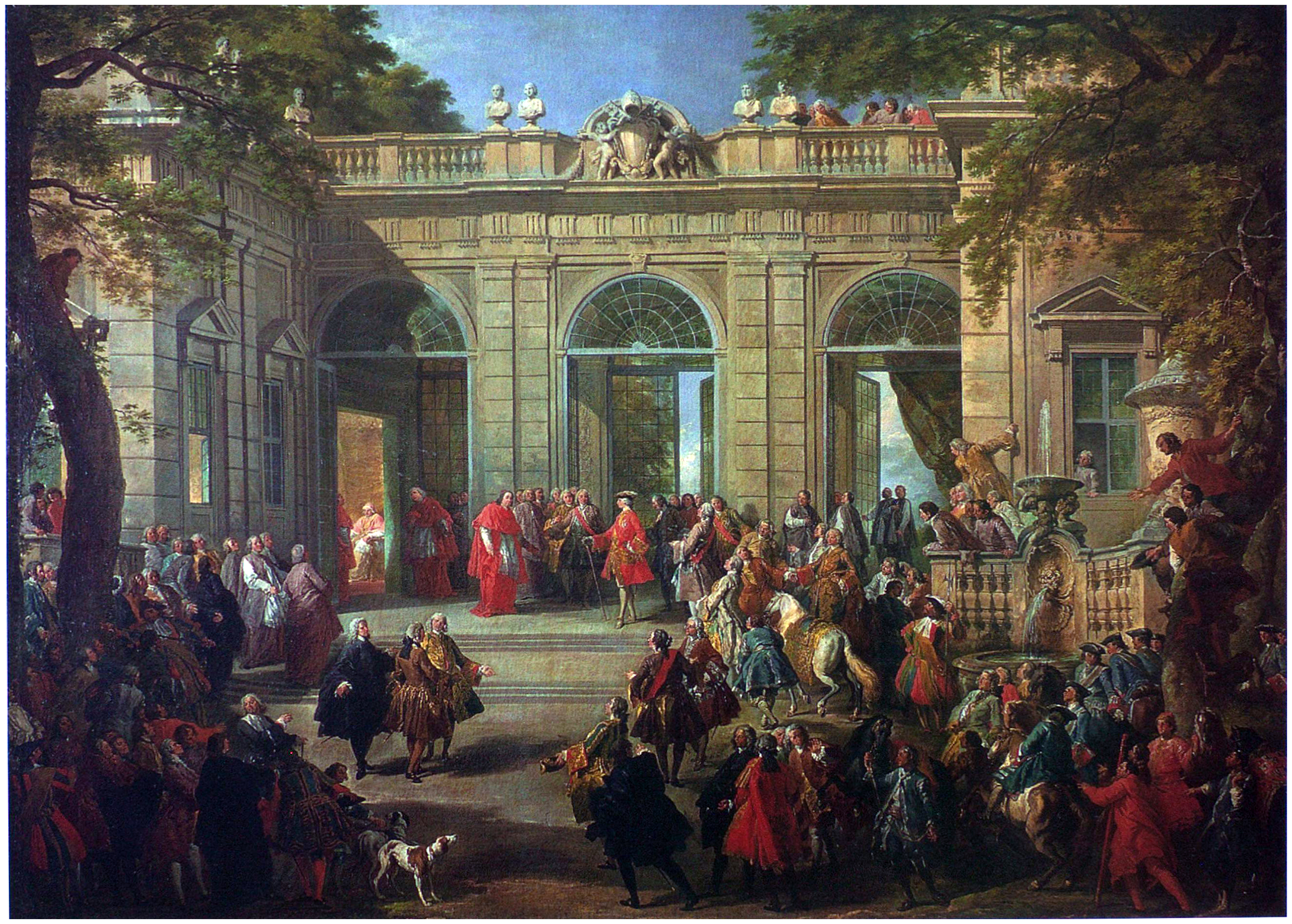 King Charles III Visiting Pope Benedict XIV at the Coffee House of the Palazzo del Quirinale